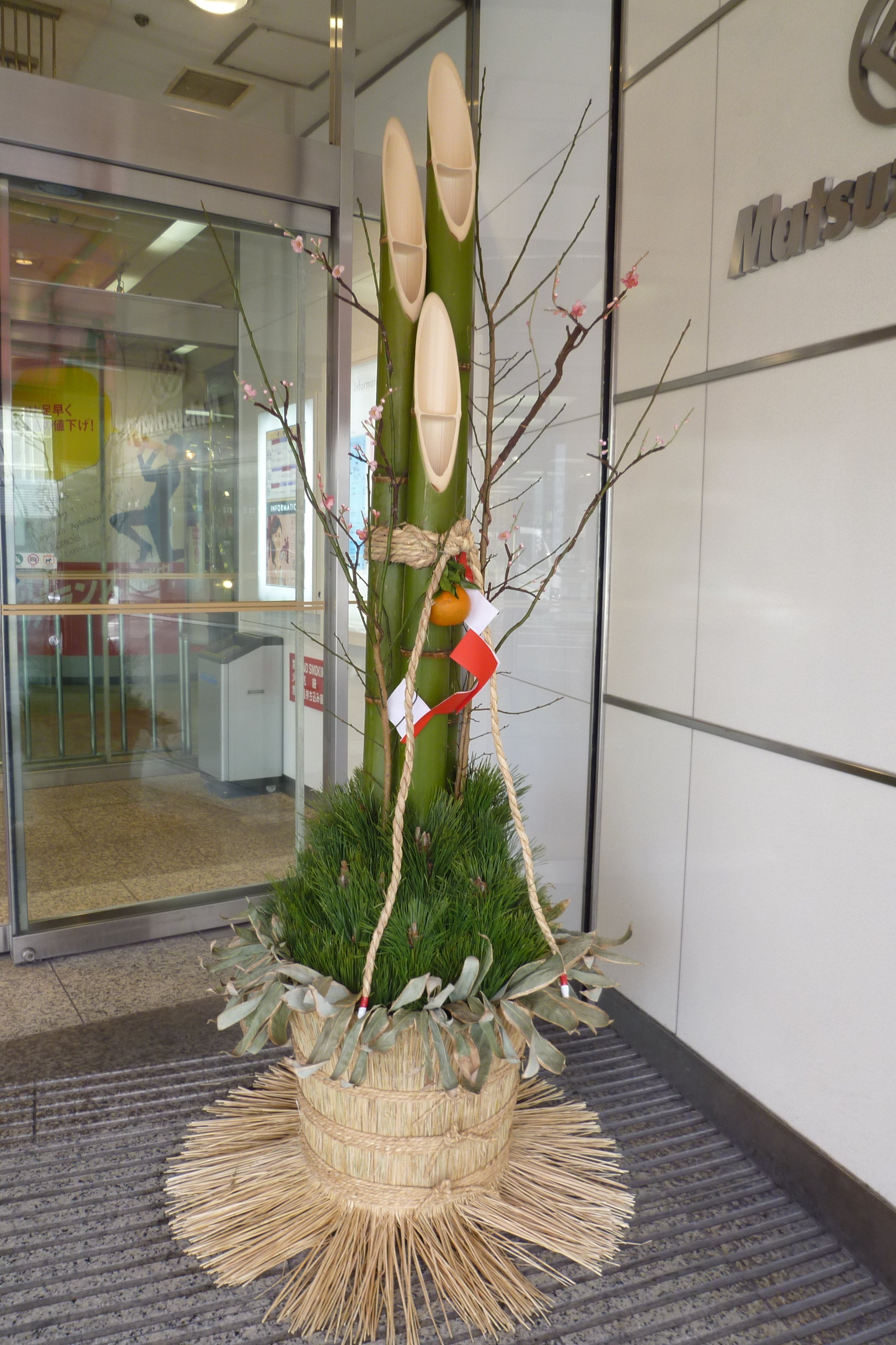 It's the season again! I was looking through old photos from last year and found a lot of diversity in "kadomatsu" that I took last year, I hope to get many more shots this year too. So that hopefully anyone can find a picture that speaks to them!